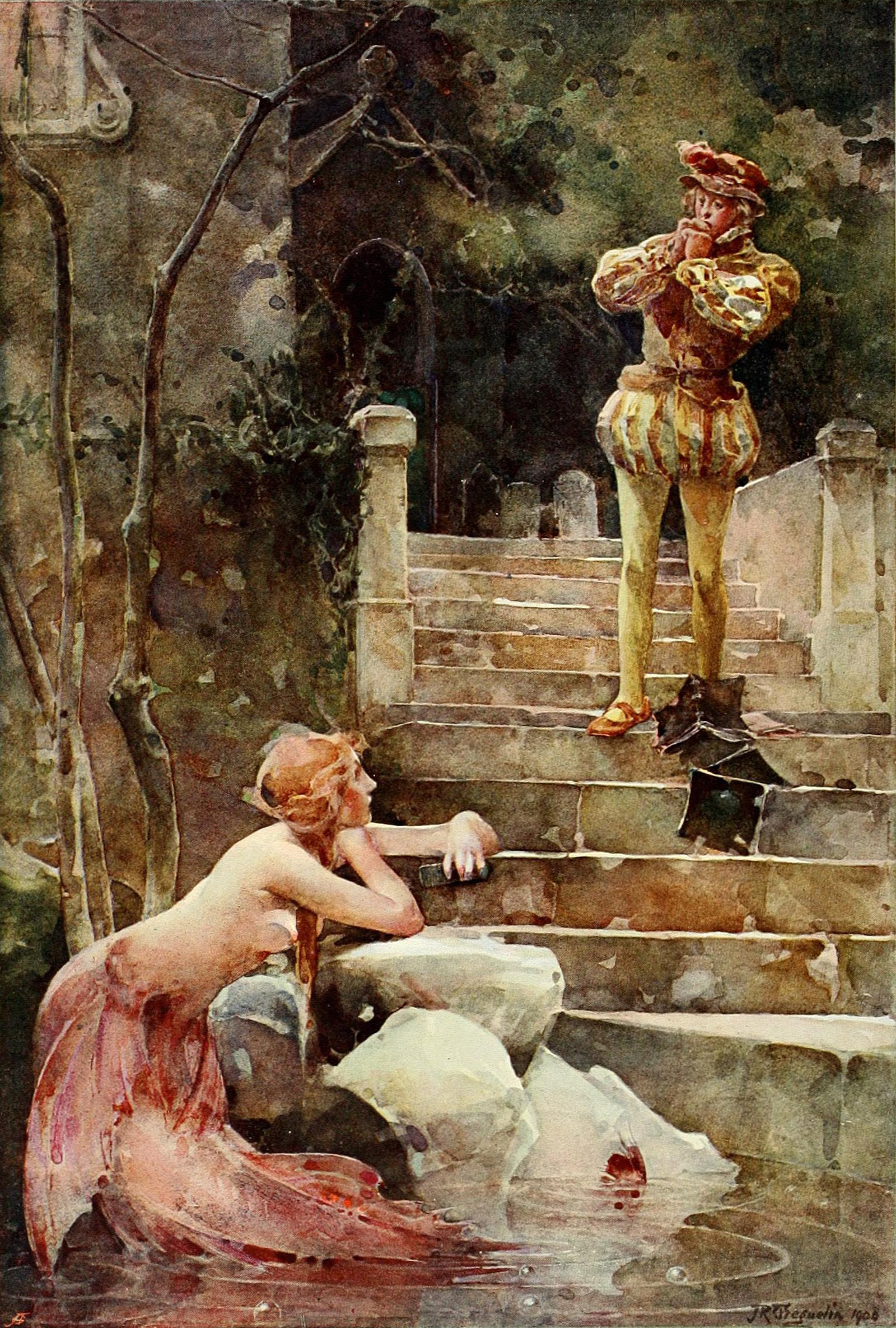 The Mermaid of Zennor, by English painter John Reinhard Weguelin (1849-1927). Watercolour, 1900. Inspired by medieval legend of a mermaid who lived at Pendour Cove, near Zennor, Cornwall, about whom various stories are told. The young man in the picture is Matthew Trewhell, a chorister of St. Senara's church in Zennor, with whose voice the mermaid was besotted. According to legend, he fell in love with the mermaid and went to share her watery home, although his voice can still be heard at Pendour Cove when he is singing.